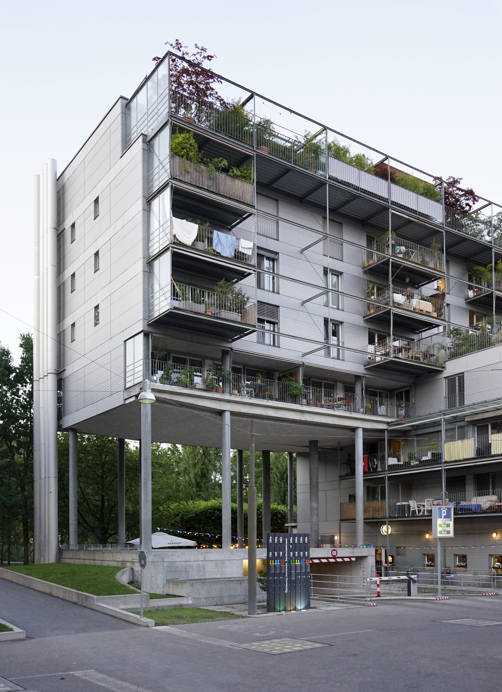 Überbauung Limmatwest, Kuhn Fischer Partner, 1990-2002